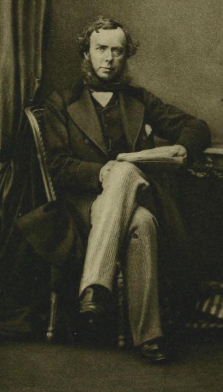 Photograph of William Henry Wills (1810-1880)